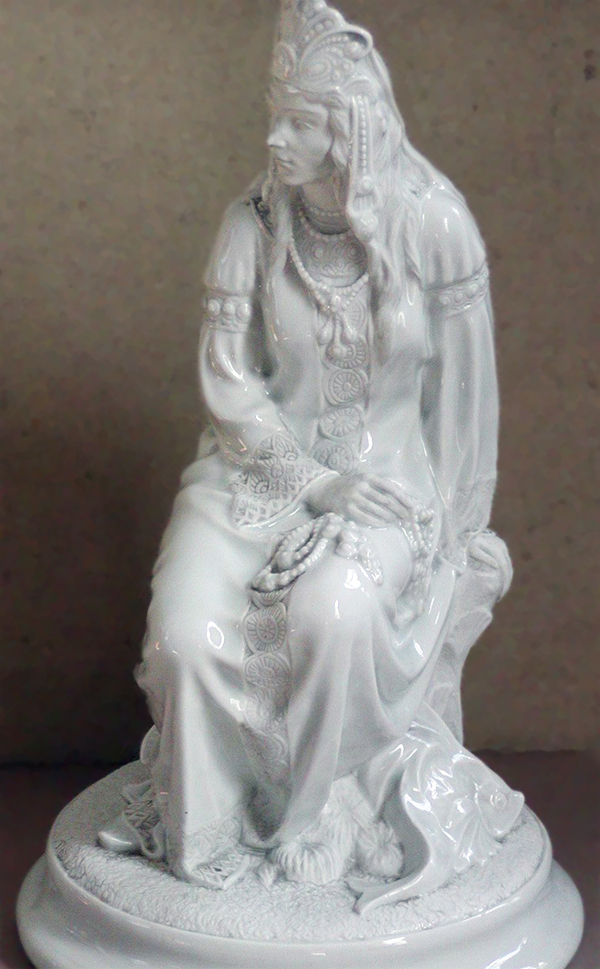 Porcelain sculpture «Sea queen» - one of the four figures of the sculptural composition on the fairy tale «Sadko». Art and Industry Academy Stieglitz, Leningrad, USSR. Diploma work (1954). Porcelain of the soviet sculptor Bronislav Bystrushkin (1926-1977). Lomonosov's Porcelain Factory, Leningrad, USSR.